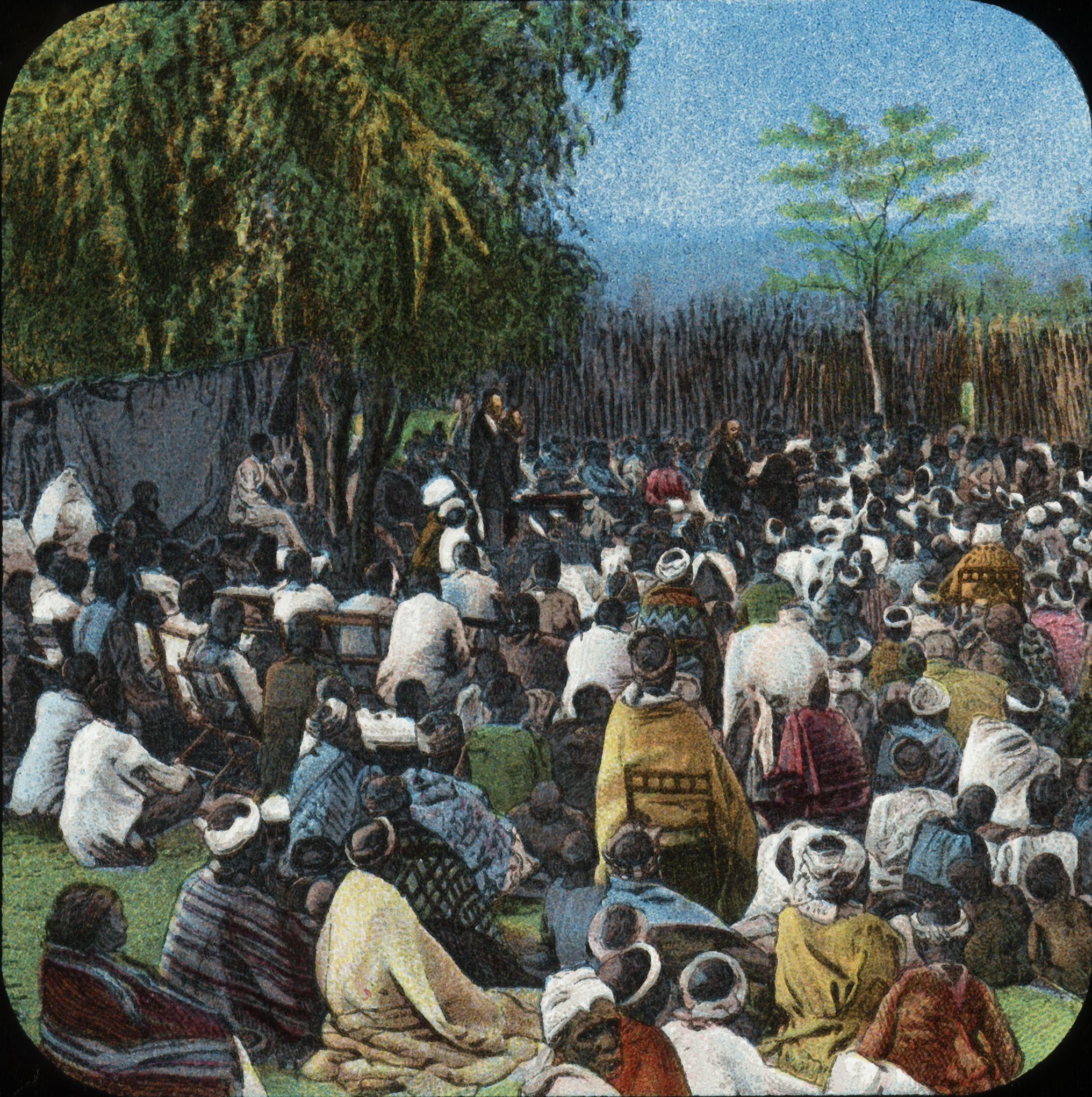 Bechuana Congregation, The London Missionary Society. Pseudonymous, circa 1900.